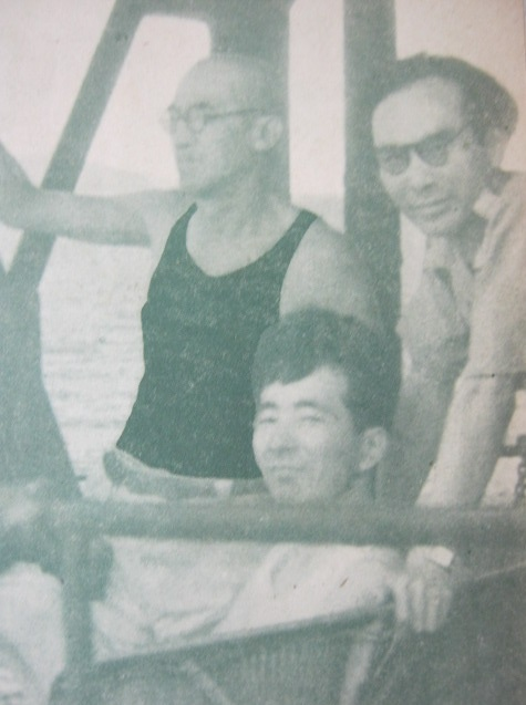 Tsuguharu Fujita, Saburō Miyamoto, Ryōhei Koiso during the Southern Operations, 1942.